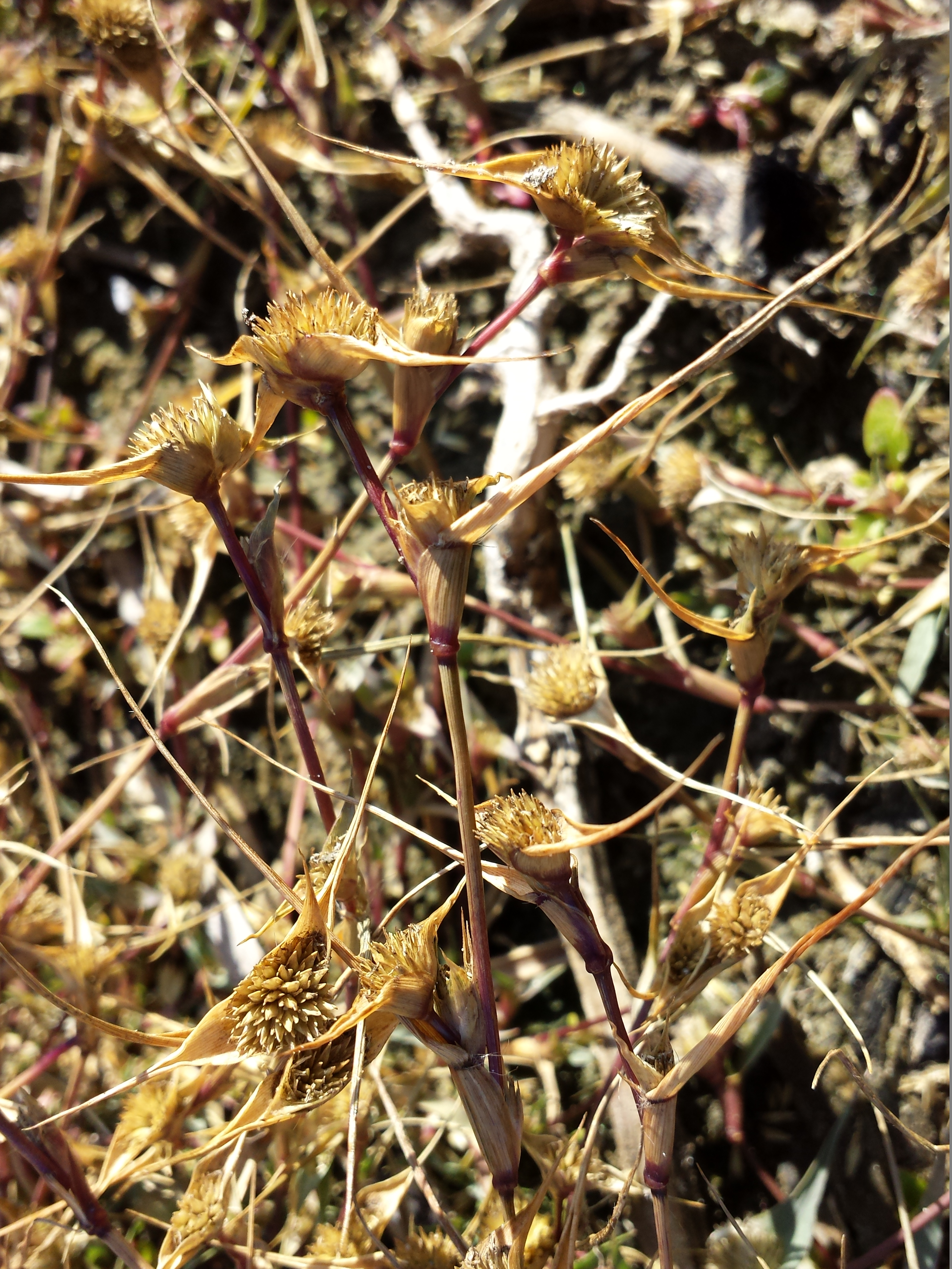 Habitus Taxon: Crypsis aculeata (sensu Fischer et al. EfÖLS 2008; det M. A. Fischer 2013-10-12) Location: small salt lake near Podersdorf, district Neusiedl am See, Burgenland, Austria - ca. 120 m a.s.l. Habitat: dried-out small salt lake